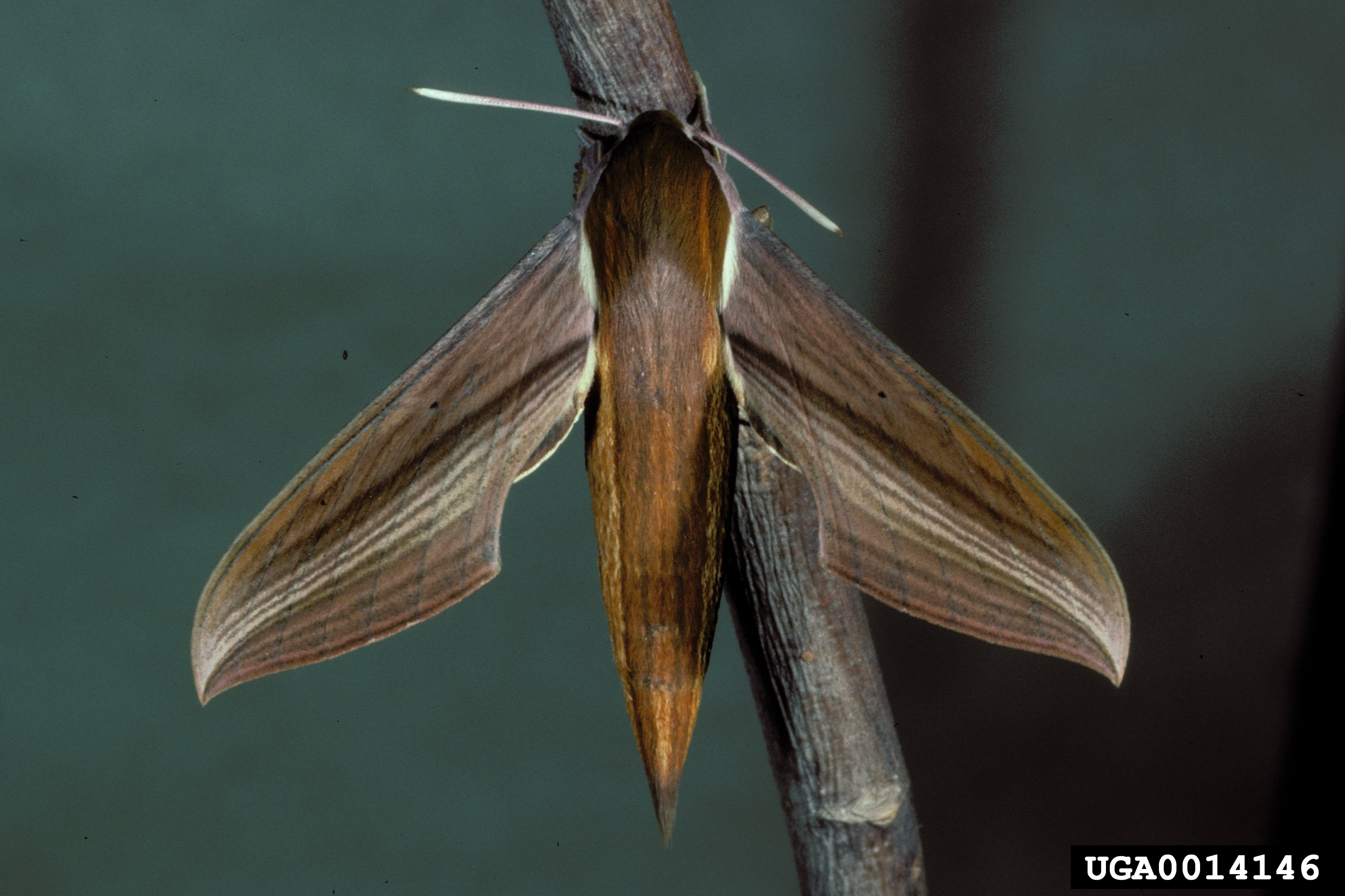 Xylophanes tersa